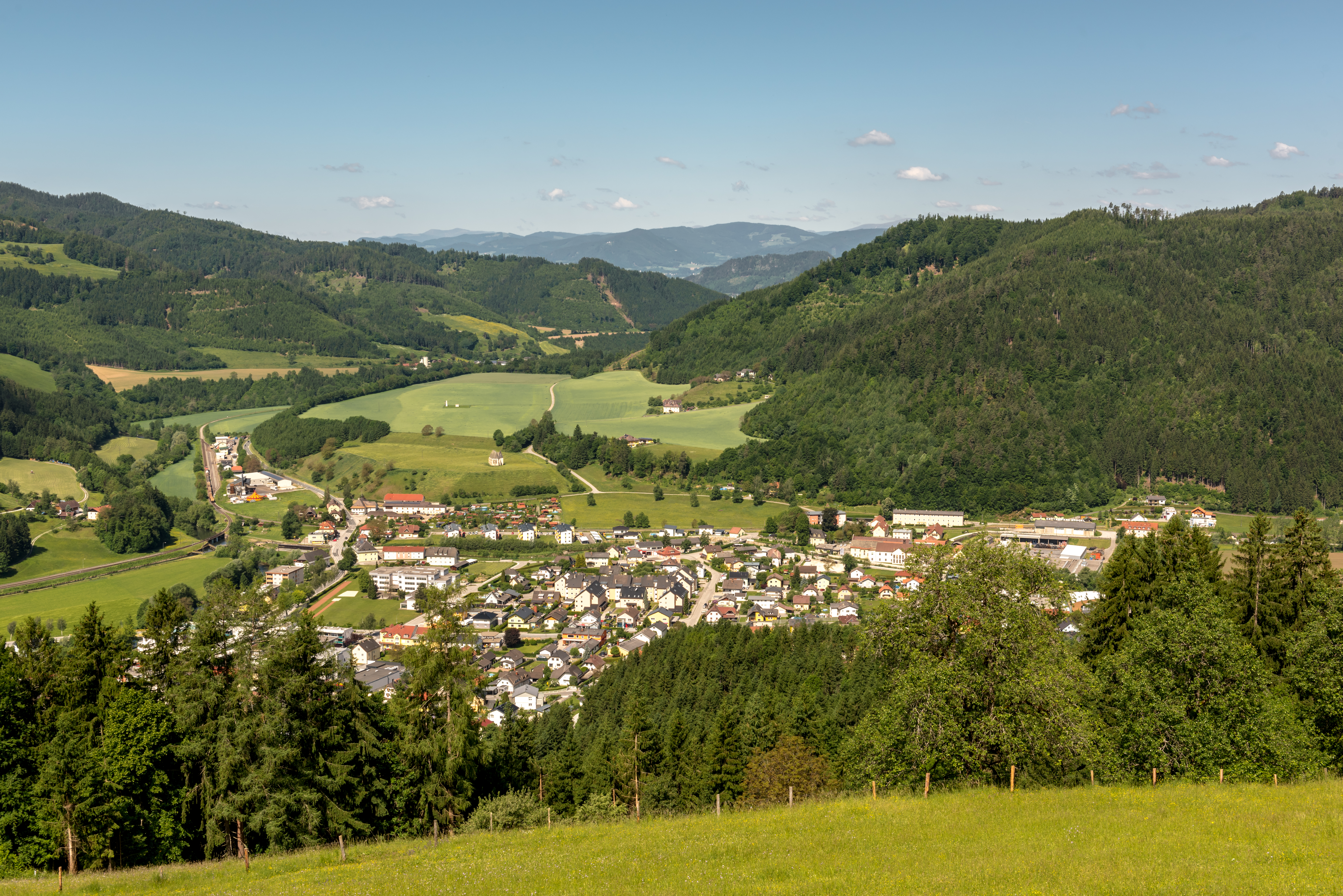 View of Brückl from Johannserberg, market town Brückl, district Sankt Veit, Carinthia, Austria, EU